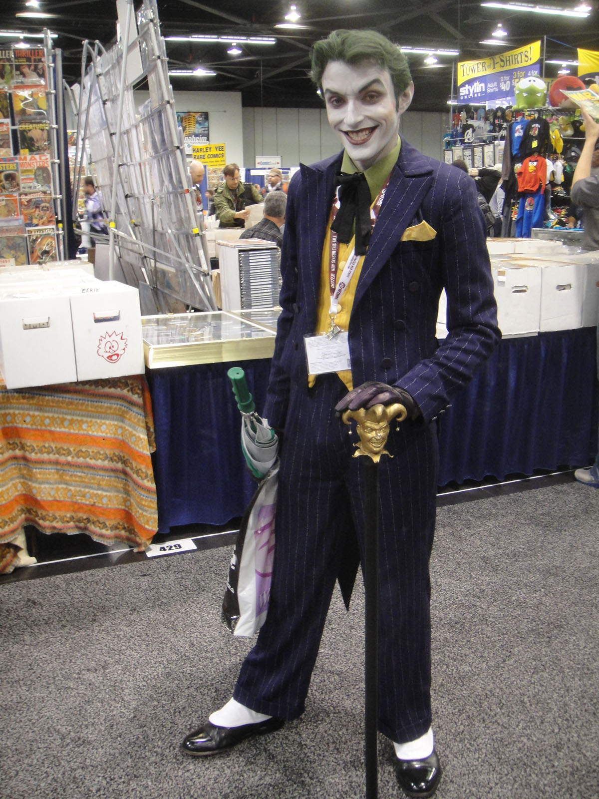 photo 2012 Pop Culture Geek taken by Doug Kline If you're interested in higher resolution versions of my images, contact me via my profile page.